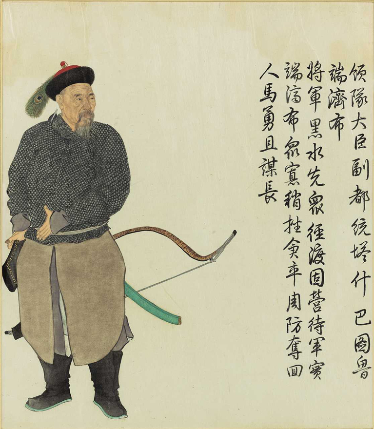 Duan-ji-bu (端济布 duan ji bu), died 1761, a Manchu officer of the manchu bordered yellow banner of the Qing Army.